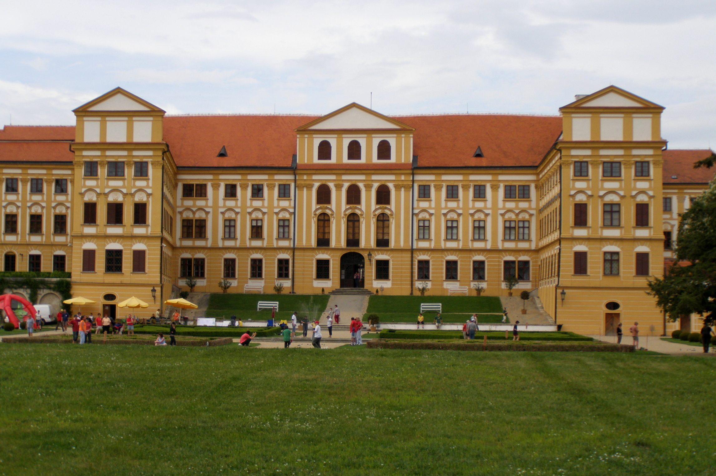 Jaroměřice nad Rokytnou. Baroque castle